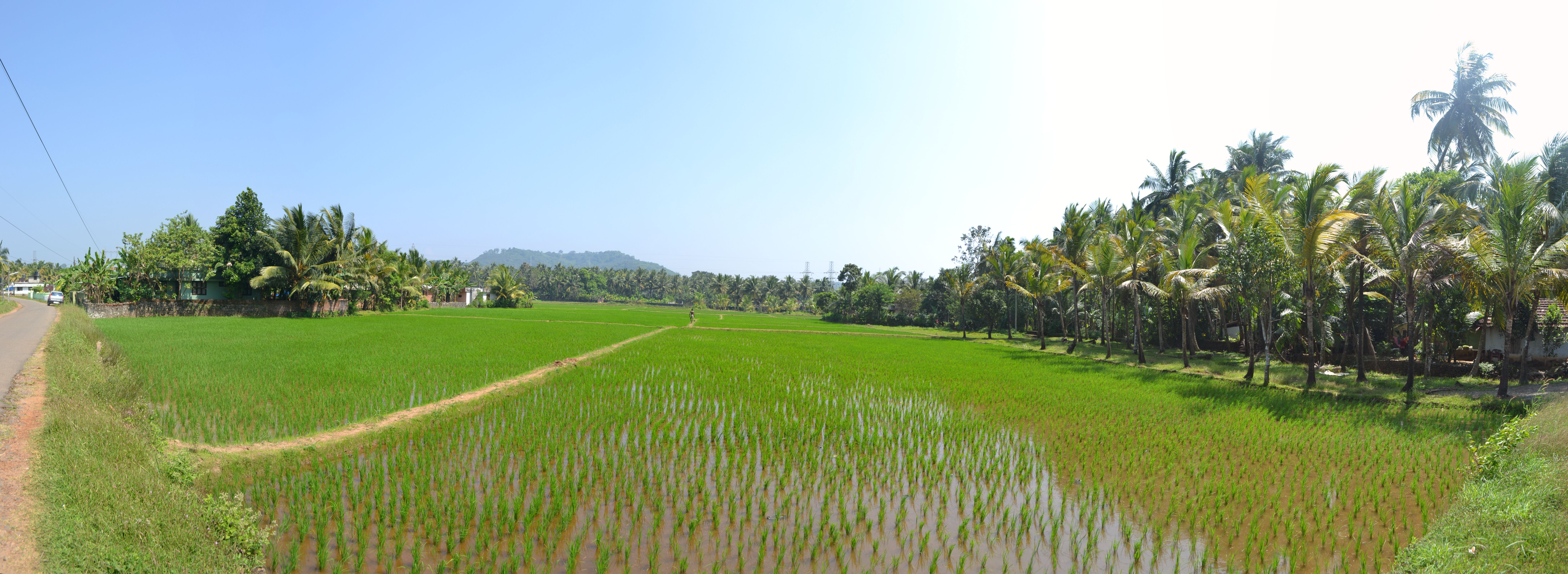 This seasonal view of paddy fields at Thanikkudam, Thrissur District, is a waning scene as of late (2011). Like in many parts of Kerala,the mostly agrarian population has changed their occupations into better yielding professions. The paddy (Orisa sativa) plants seen here are part of the Virippu season that starts in October and ends in January.